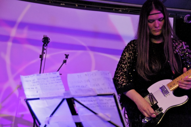 Rose Kemp at the Supersonic Festival 2009